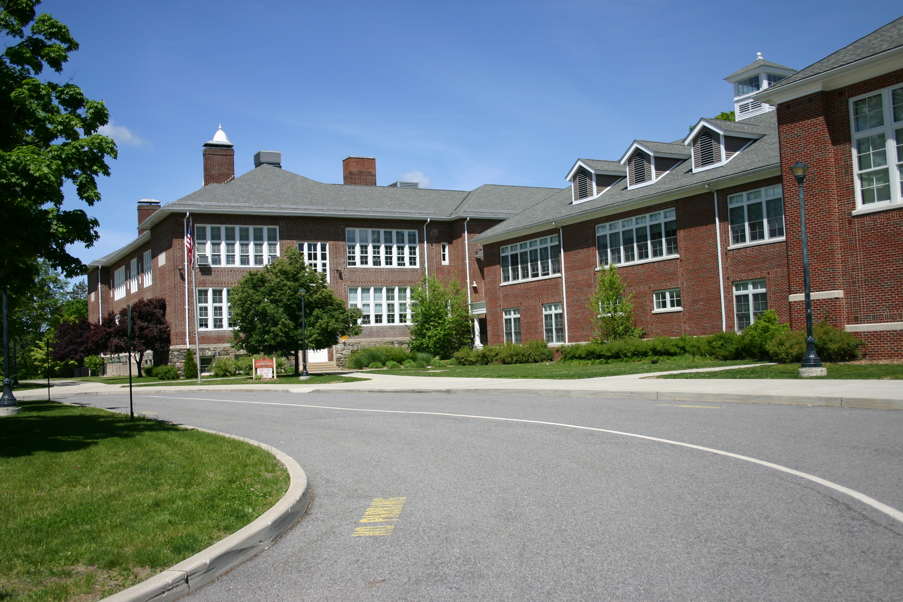 Mt. Kisco Elementary School, part of the Bedford Central School District